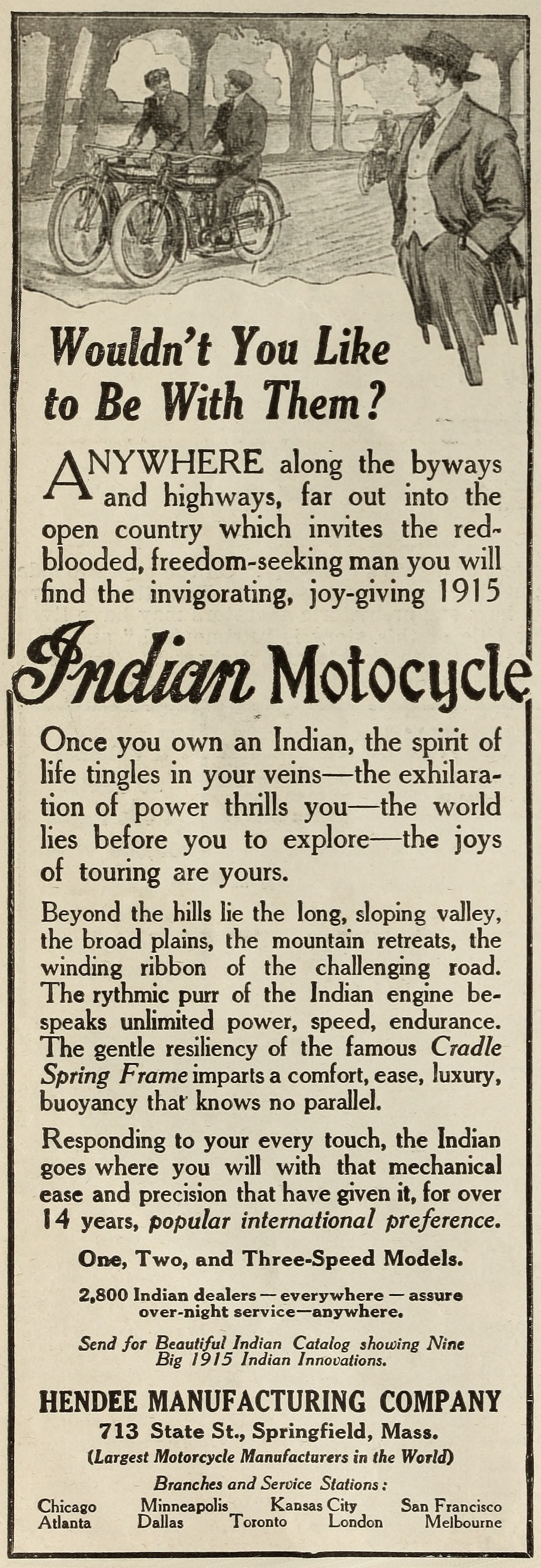 Indian motorcycle advertisement